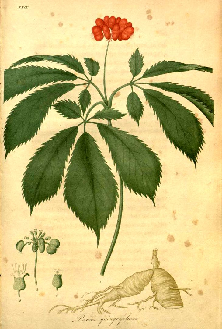 Panax_quinquefolius L., from "American medical botany being a collection of the native medicinal plants of the United States, containing their botanical history and chemical analysis, and properties and uses in medicine, diet and the arts" by Jacob Bigelow,1786/7-1879. Publication in Boston by Cummings and Hilliard,1817-1820.